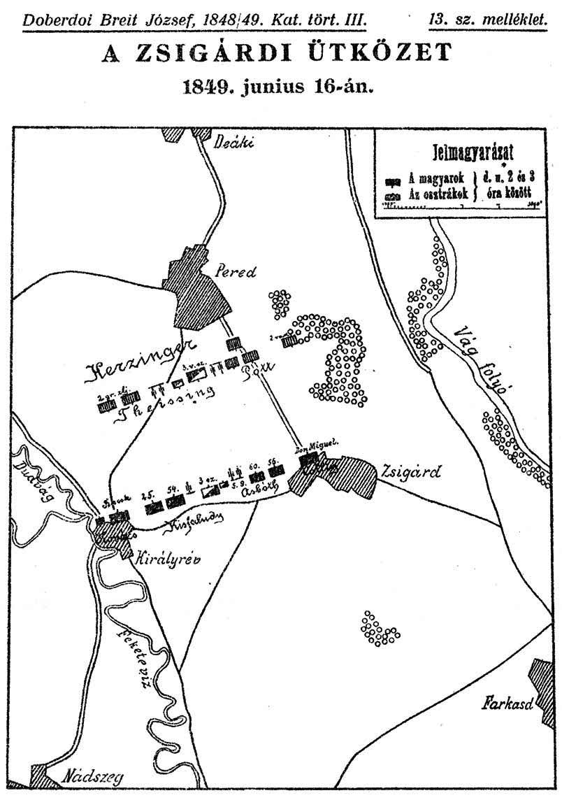 Battle of Zsigárd on 16 June 1849